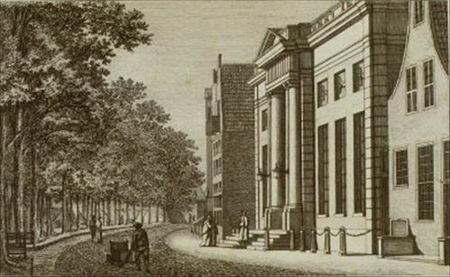 Teylers Hofje (Almhouse Teyler), Haarlem, The Netherlands in 1800.